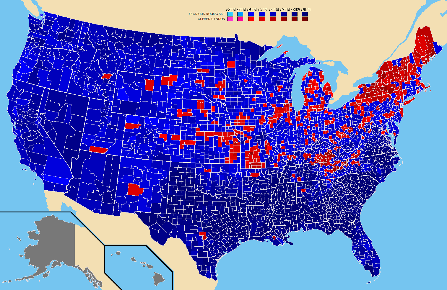 A map of the counties won by each candidate in the United States presidential election.